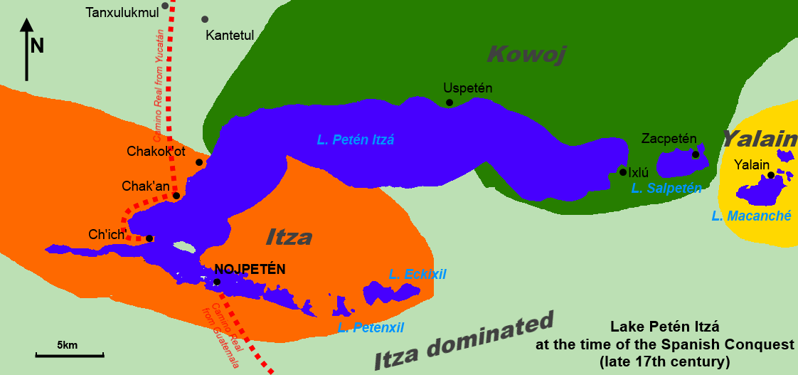 Lake Petén Itzá, Guatemala, at the time of its conquest by the Spanish Empire in 1697. Sources: The Conquest of the Last Maya Kingdom by Grant D. Jones Forest Society: A Social History of Peten, Guatemala by Norman B. Schwartz The Kowoj: Identity, Migration, and Geopolitics in Late Postclassic Petén, Guatemala by Prudence M. Rice and Don S. Rice ITMB Map of Guatemala 1:500,000